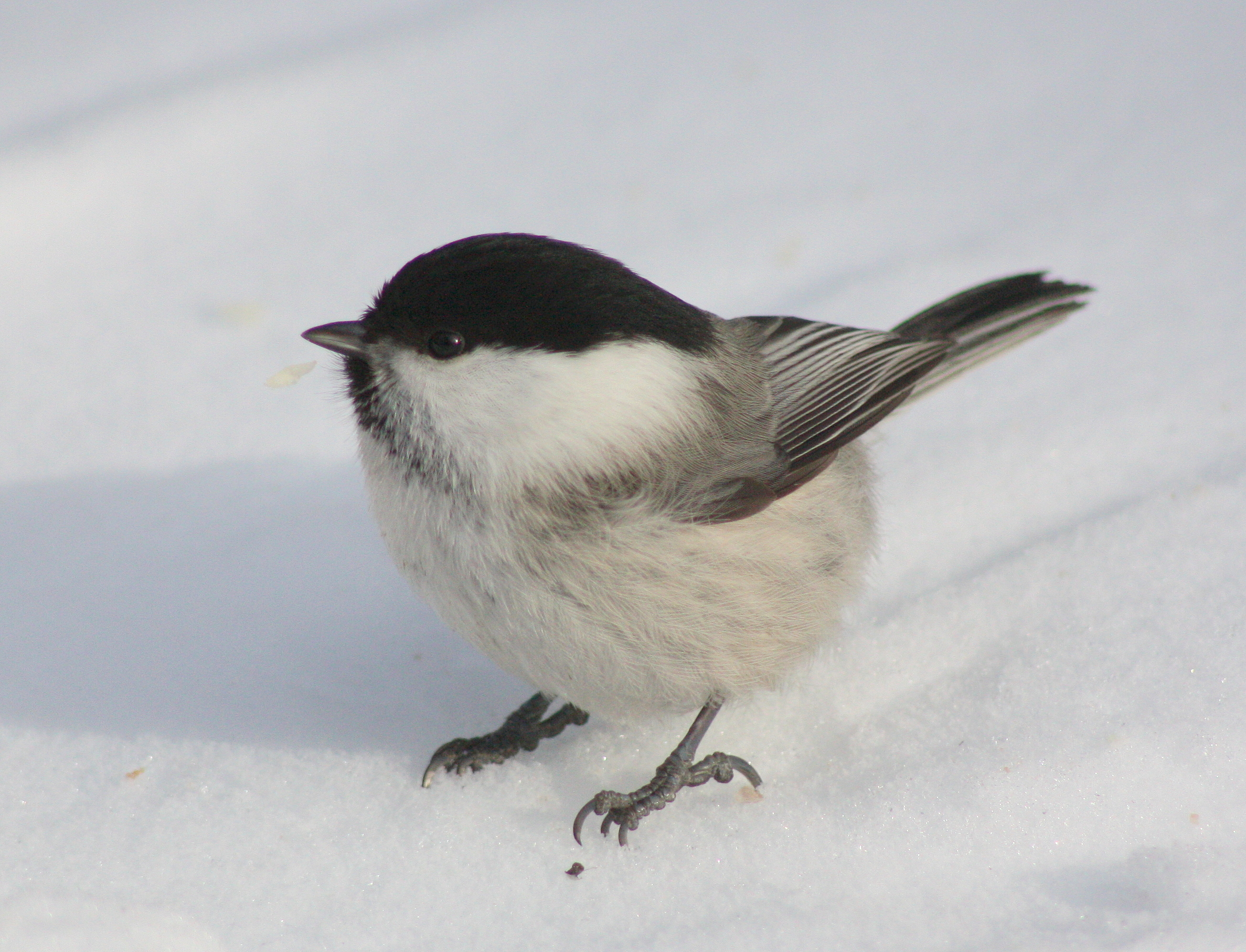 Willow tit (Poecile montanus) in Kittilä, Finland.